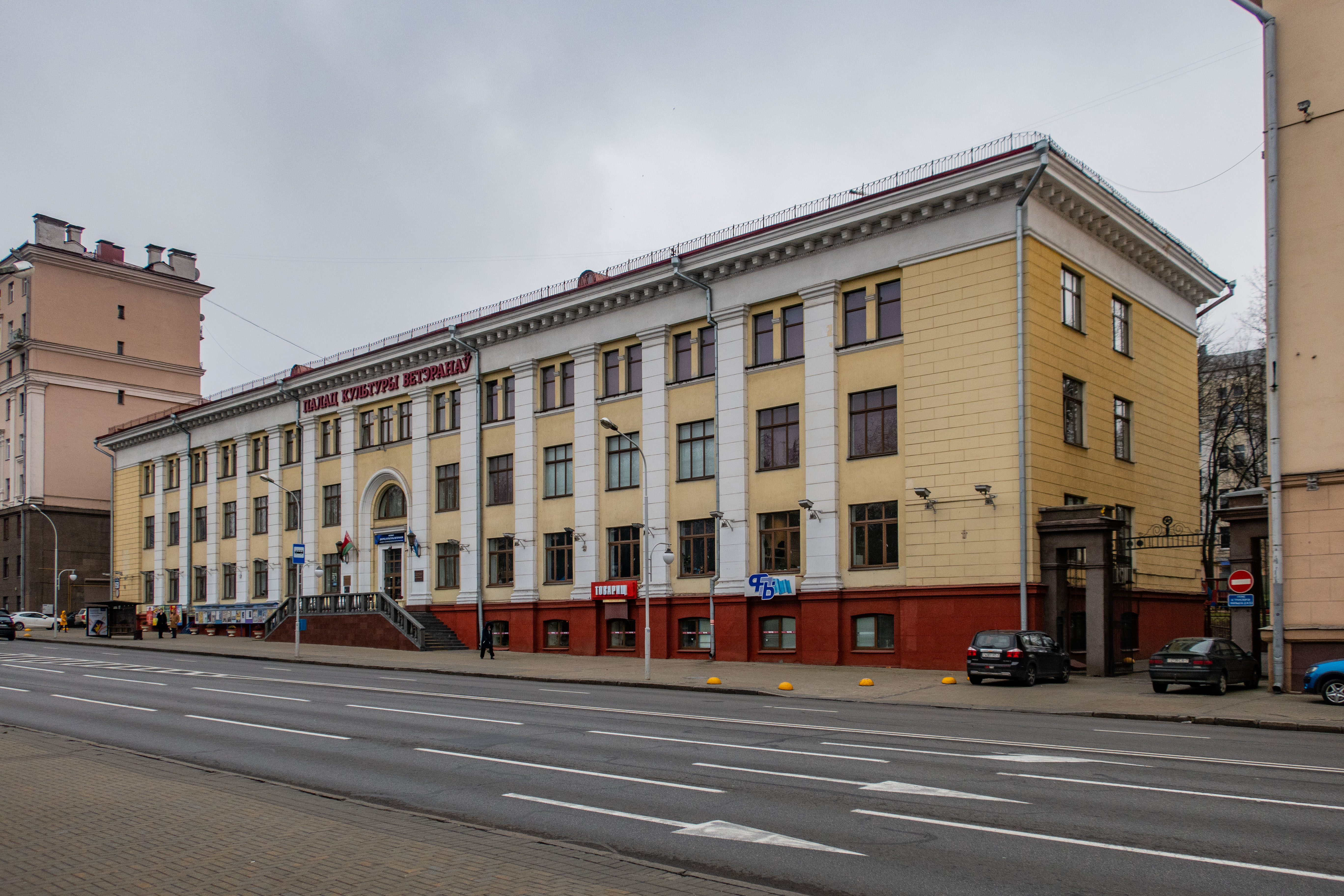 Janki Kupaly street. Minsk, Belarus